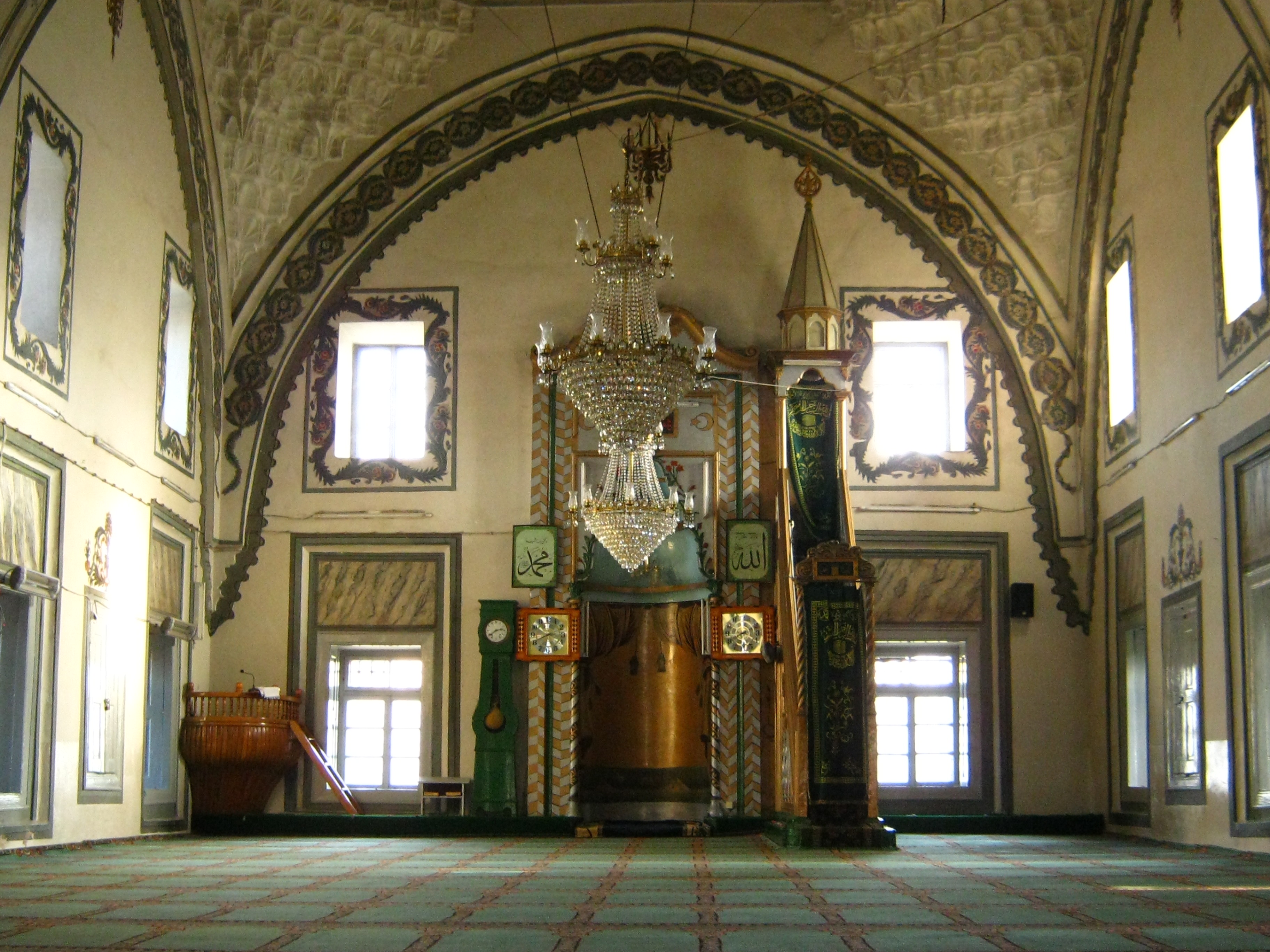 Isa Bey mosque in Skopje